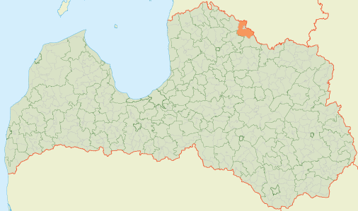 Valka parish locator map